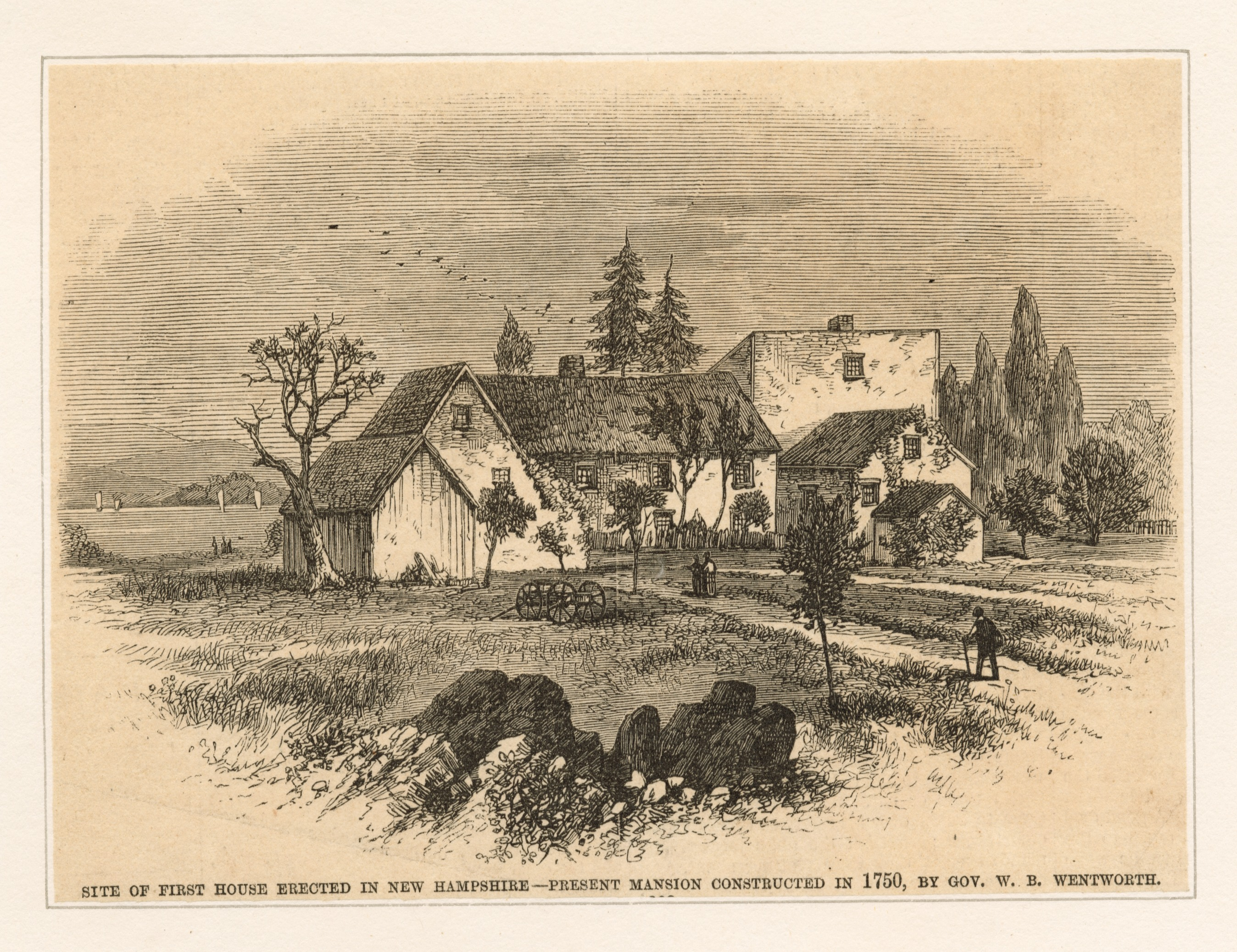 EM1933